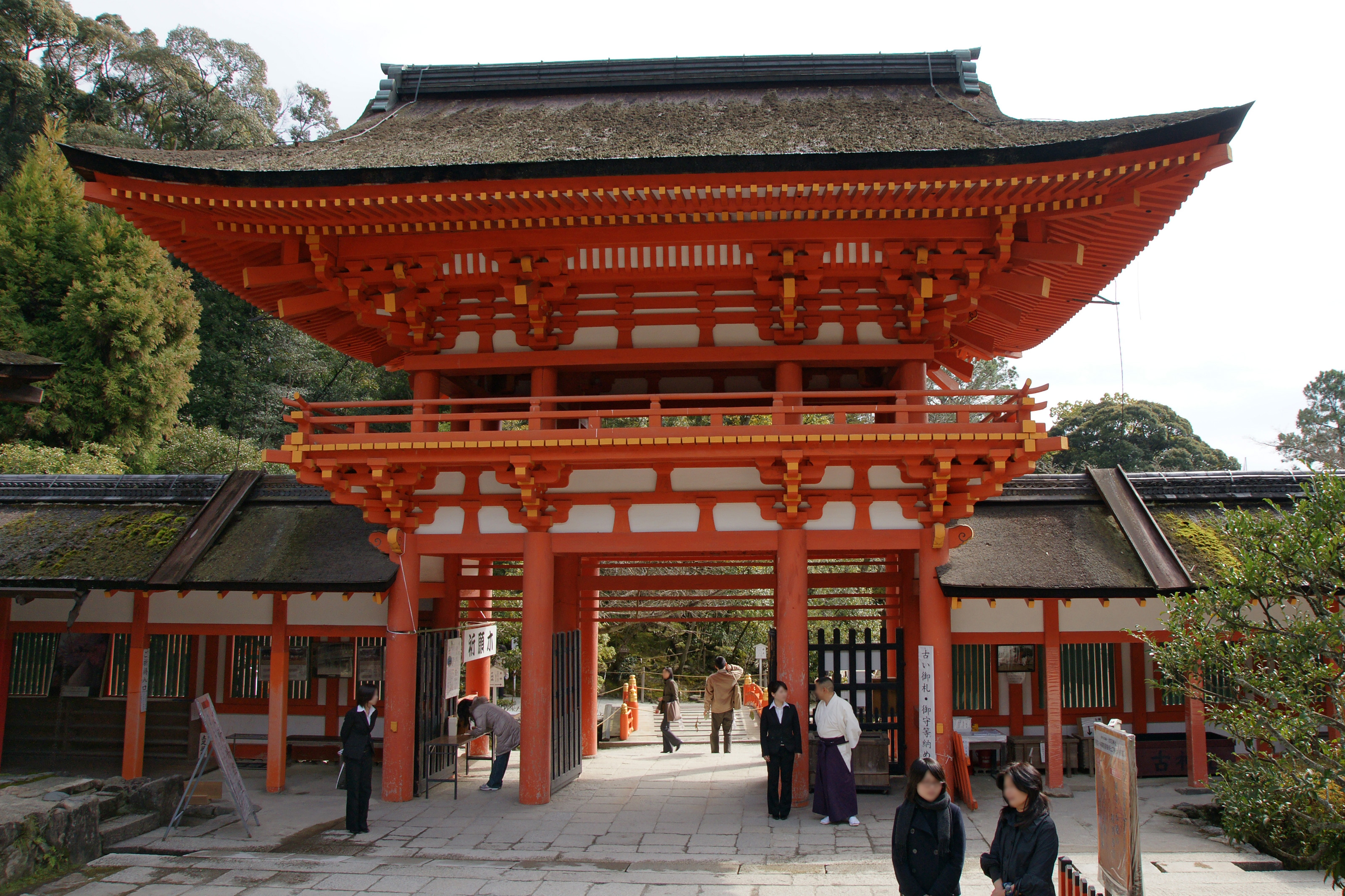 Kamowakeikazuchi-jinja (Kamigamo-jinja) in Kita-ku, Kyoto, Kyoto Prefecture, Japan